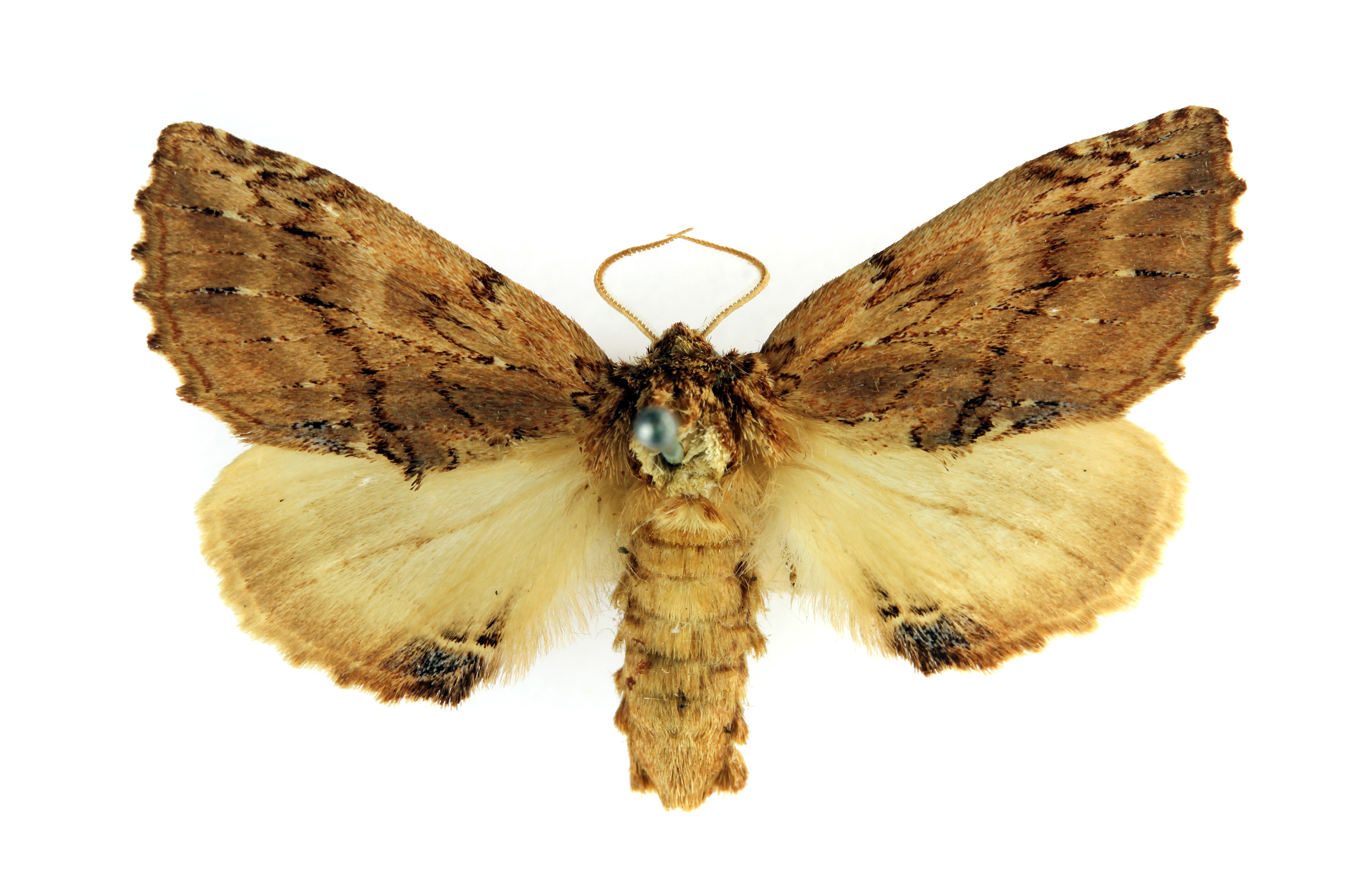 Ptilodon capucina, insect collections SLU, Uppsala